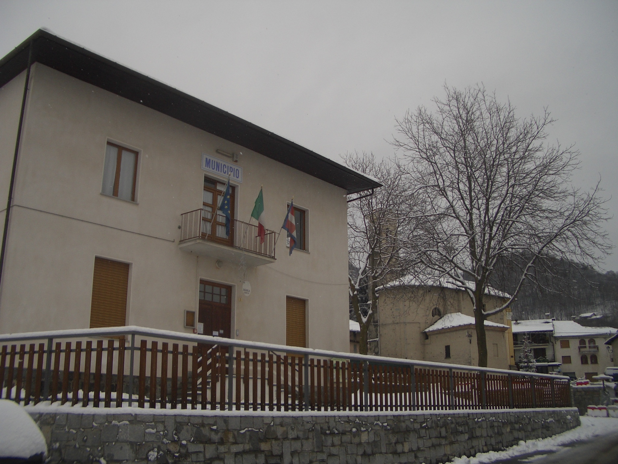 The Town Hall, Meugliano, Turin, Italy